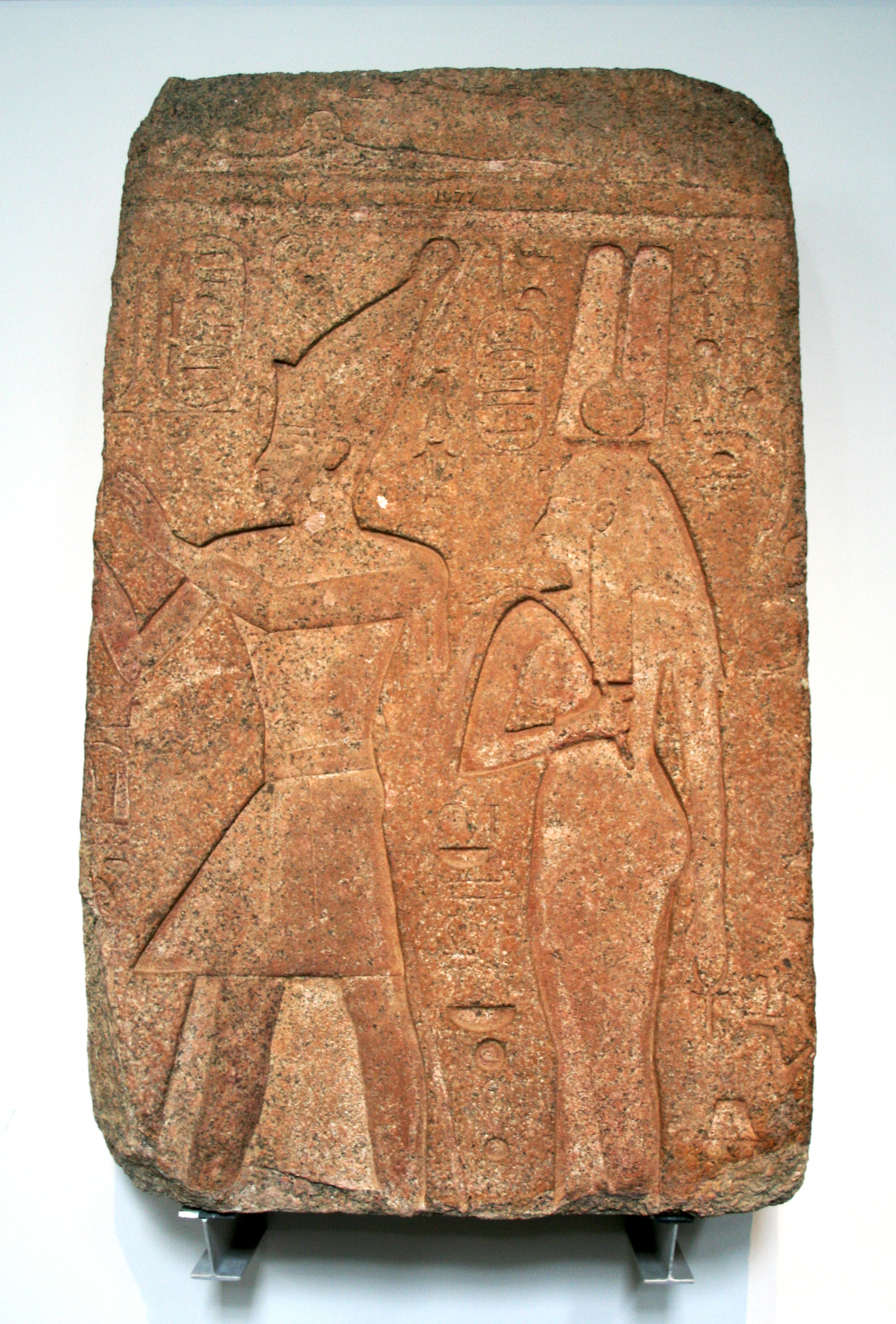 British Museum, London